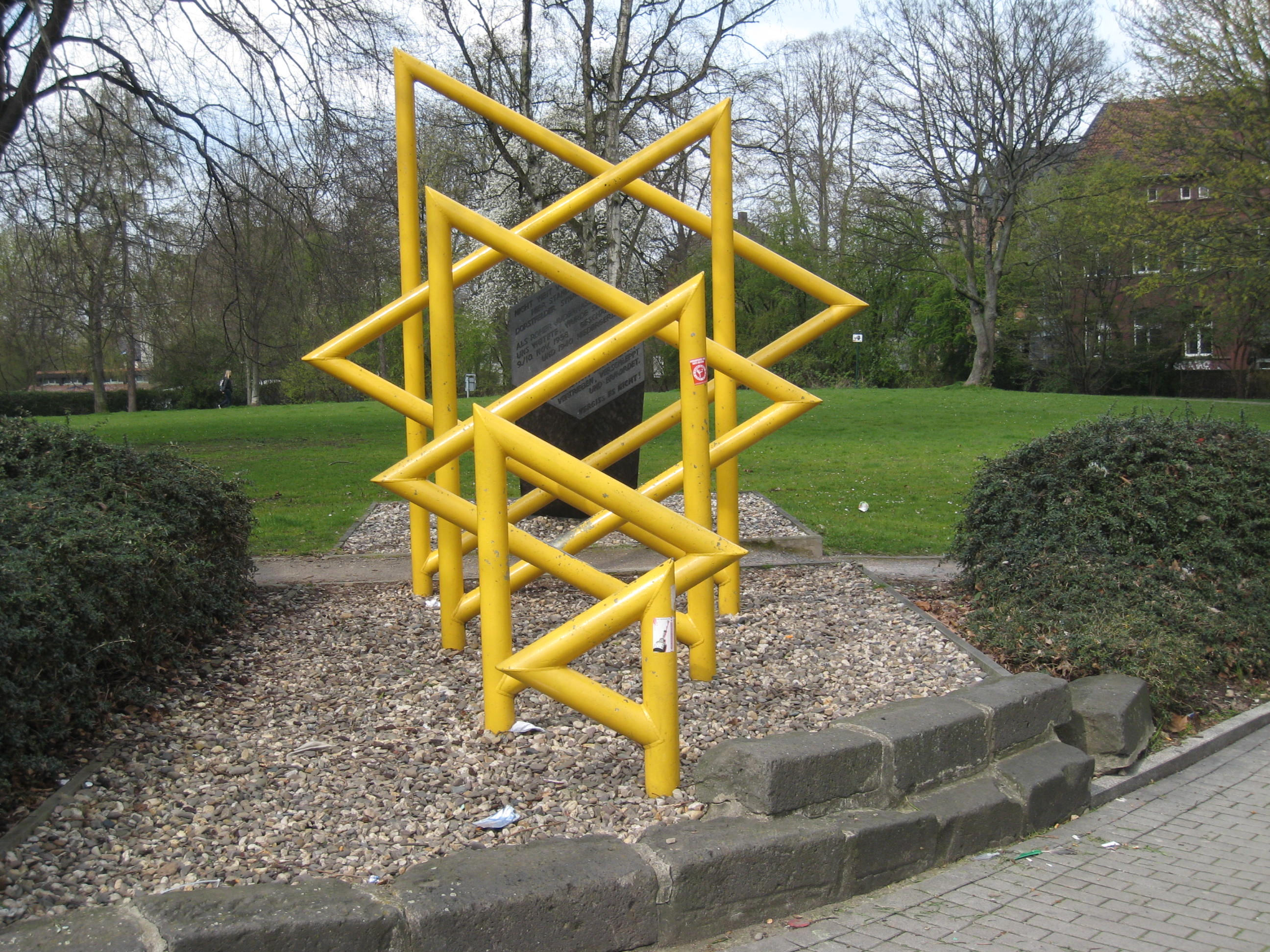 Memorial for the synagoge in Dortmund-Dorstfeld, Germany